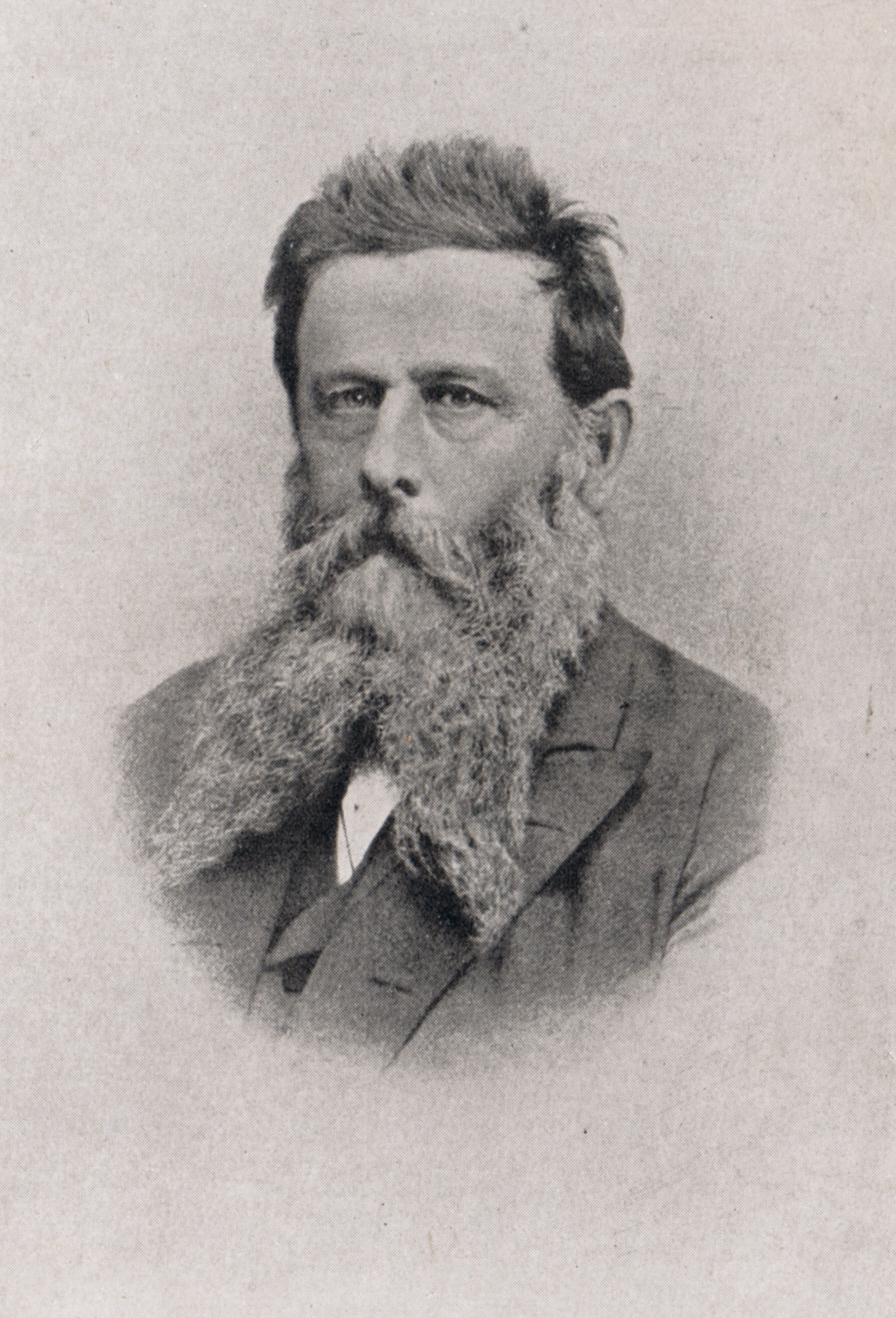 German agricultural scientist, soil scientist, geologist, journalist and mineralogist. He was the pioneer of oil production.